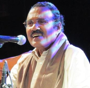 Gazal singer Mr.Umbayee- a shot taken from Gazal Night at Sharjah International Book Fair 2011